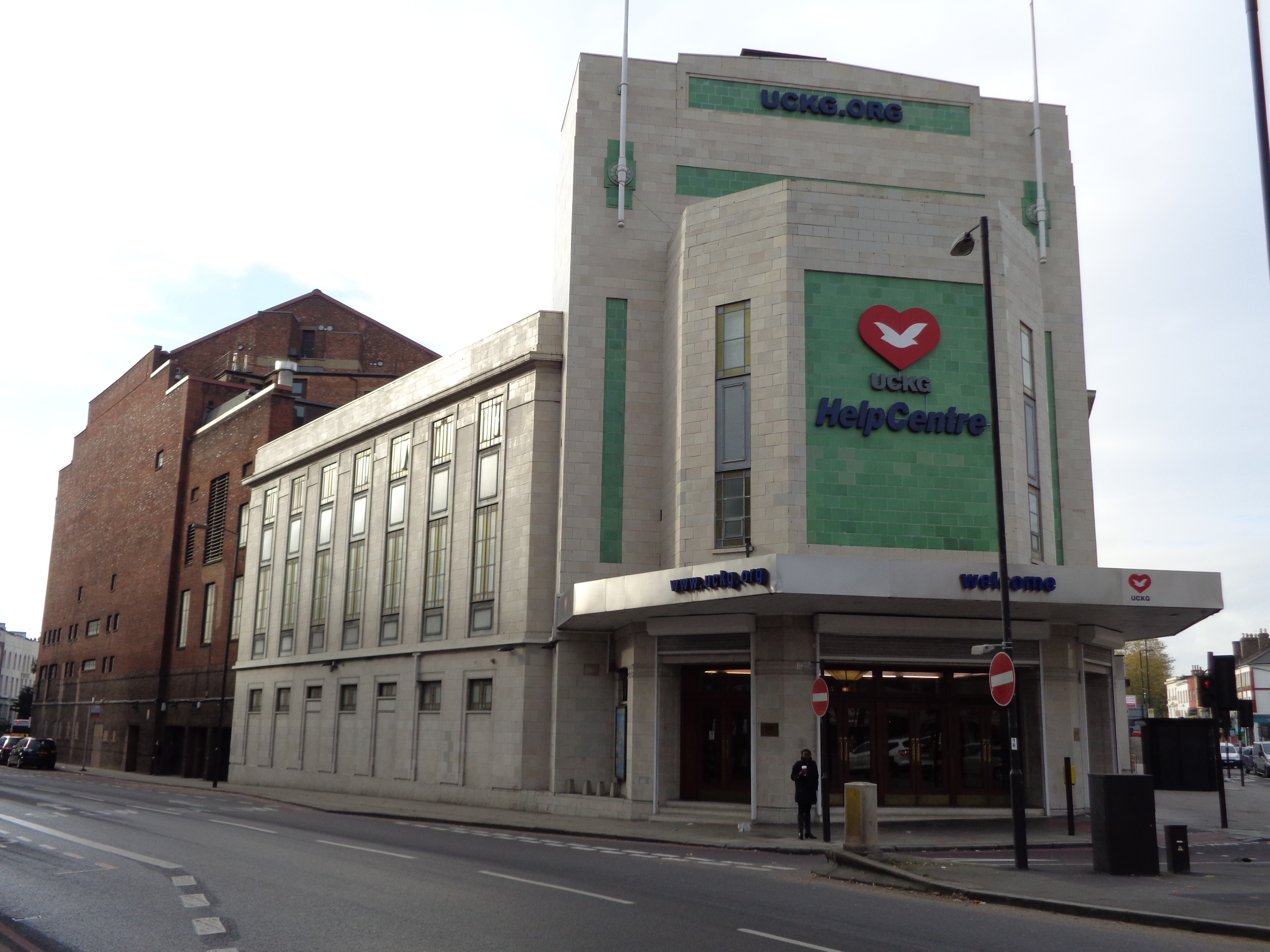 Rainbow Theatre Wikidata has entry Q3288732 with data related to this item.